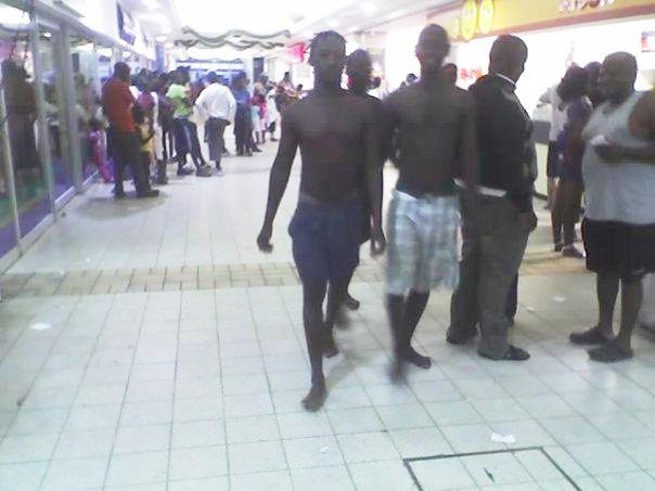 Amanzimtoti on New Year's day